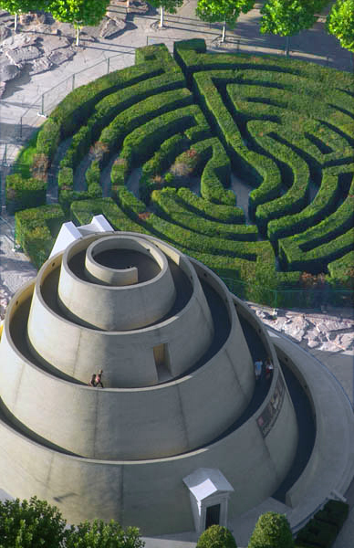 National Theatre (Budapest), Hungary, aerial photogrpahy